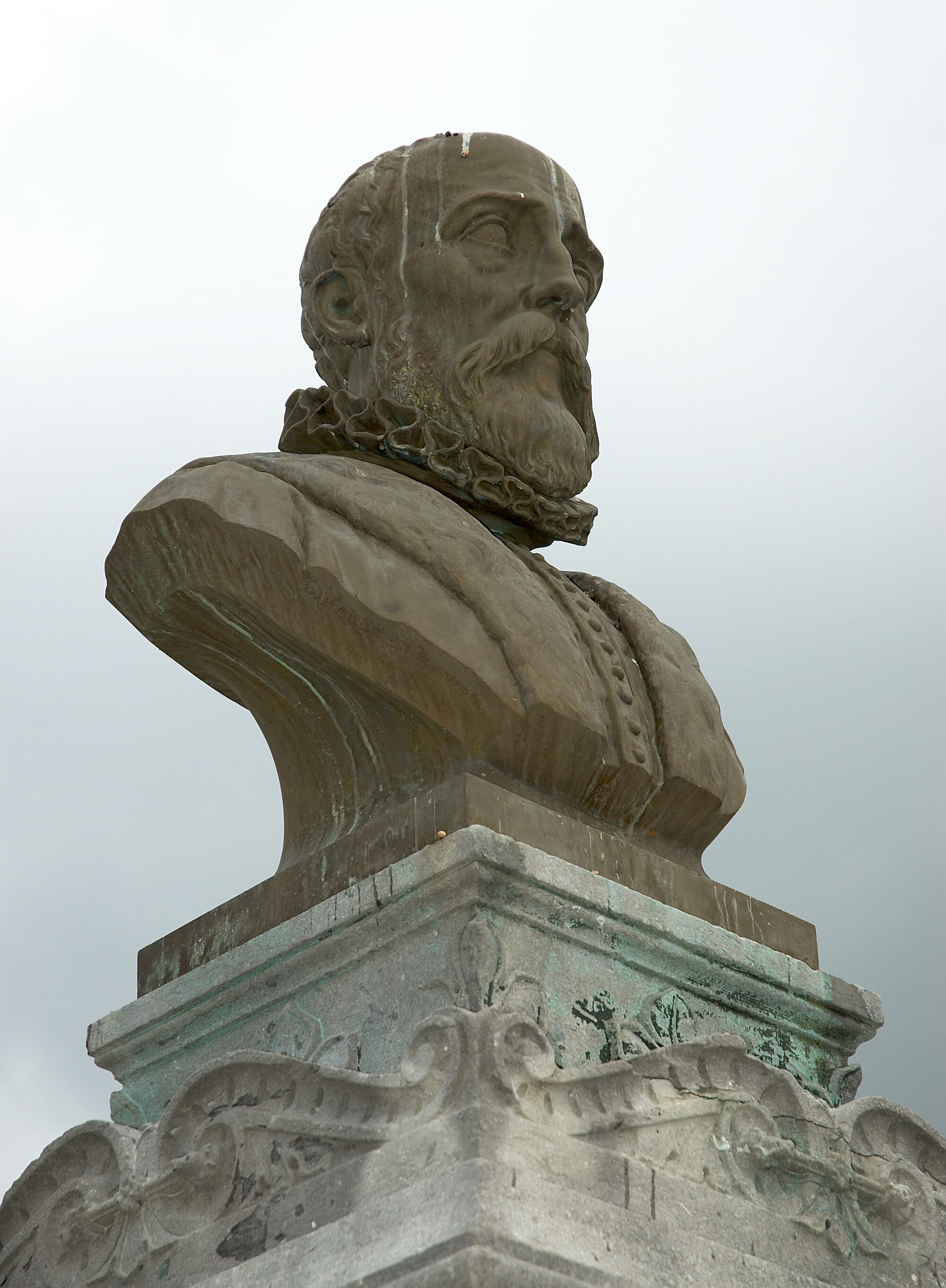 Justus Lipsius monument in Overijse, Belgium